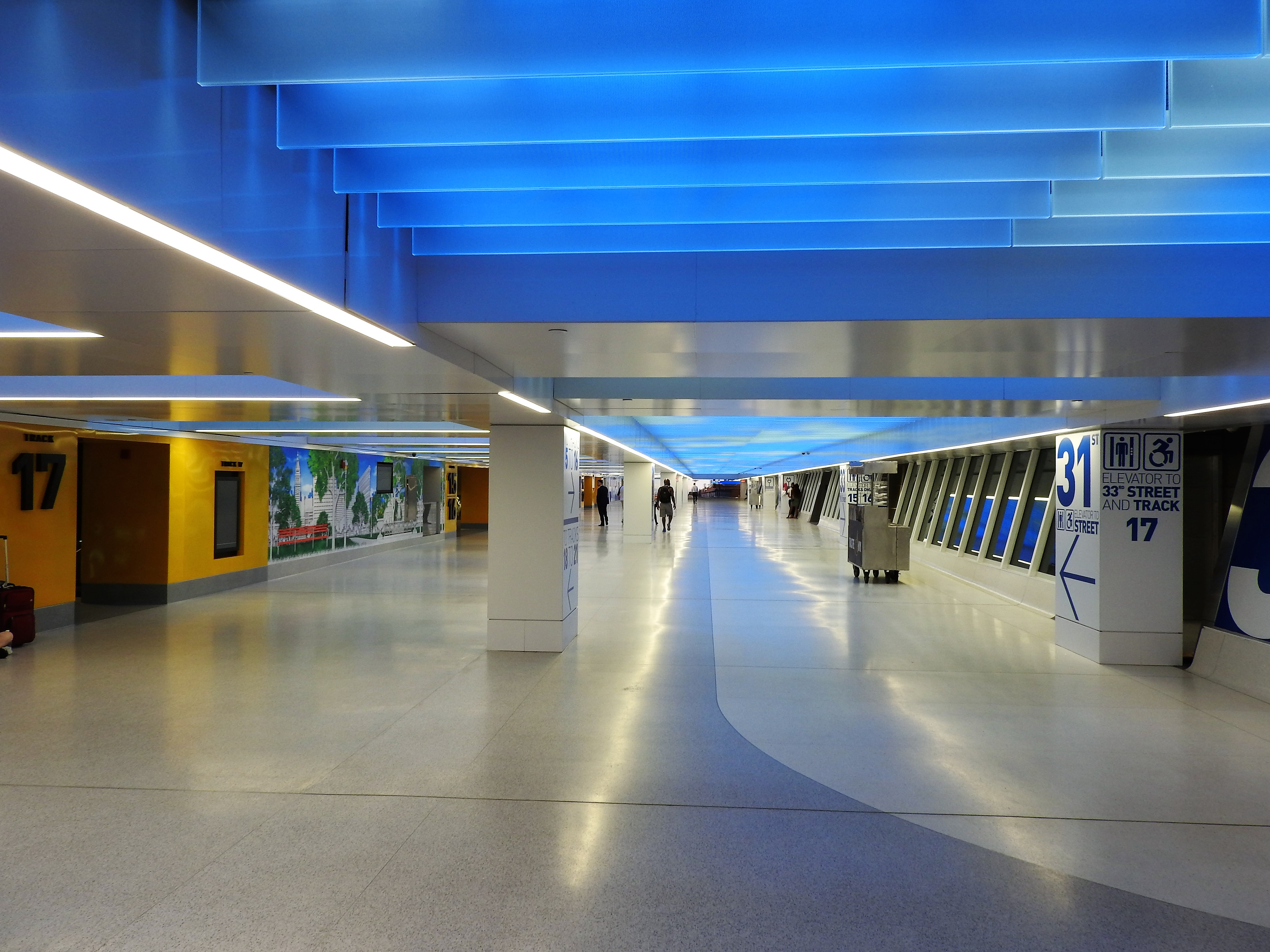 Looking south along West End Concourse.